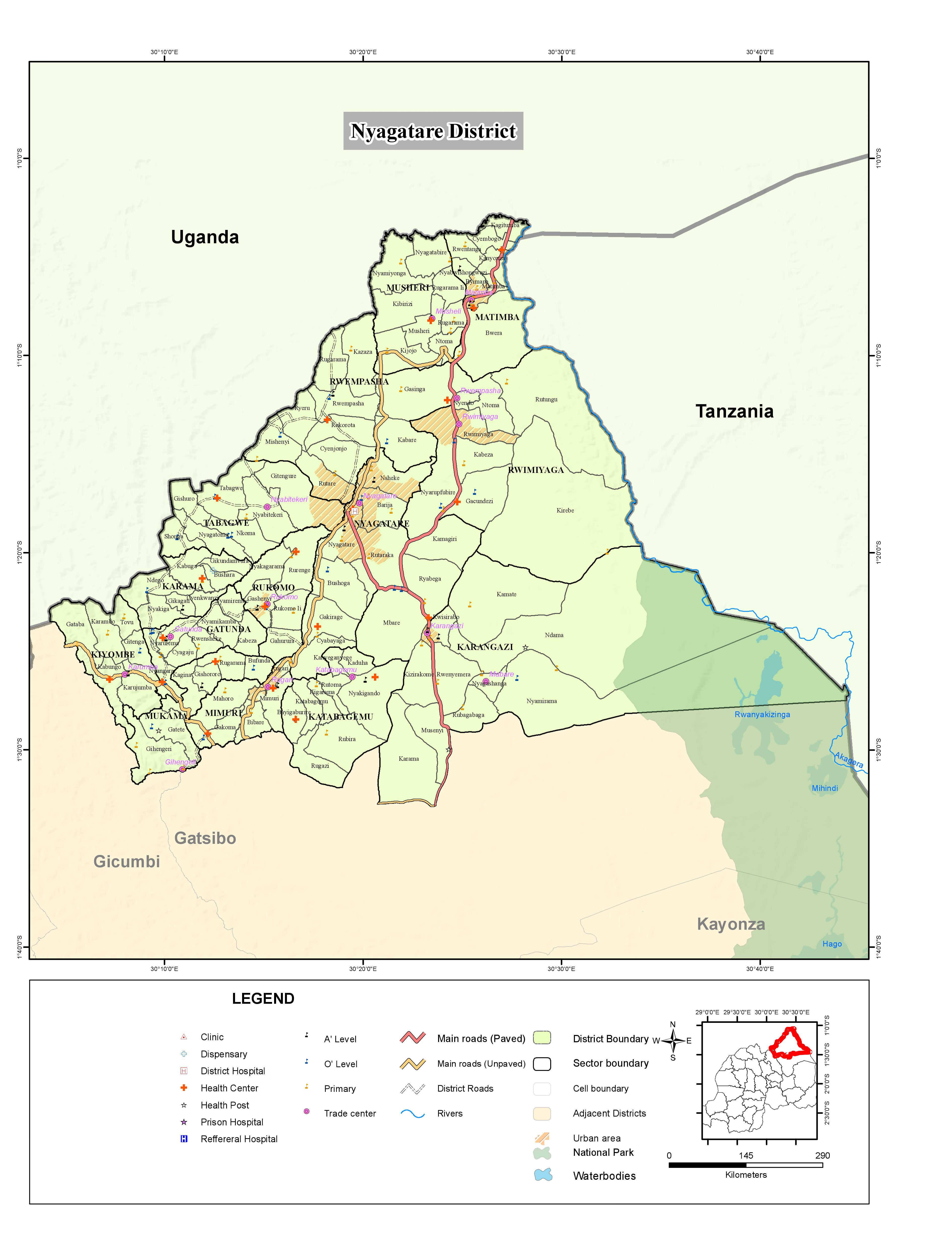 Map of Nyagatare district Rwanda